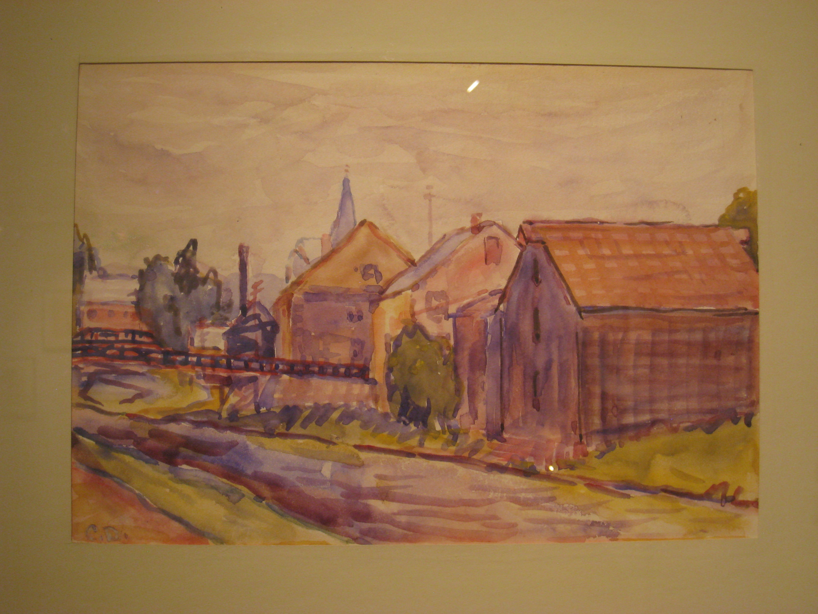 Charles Demuth - The Canal, New Hope, PA, 1908-1911. Exhibited in the Charles Demuth house museum, Lancaster, Pennsylvania, USA. There were no prohibitions on photography in the museum, and the original artwork is old enough to be in the public domain. I took this photograph.